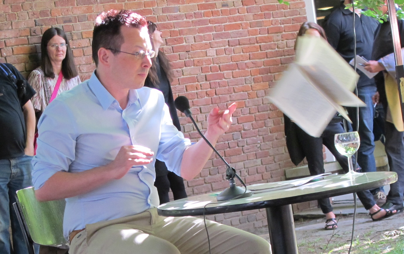 Mathias Traxler at the Lyrikmarkt in Berlin 2016